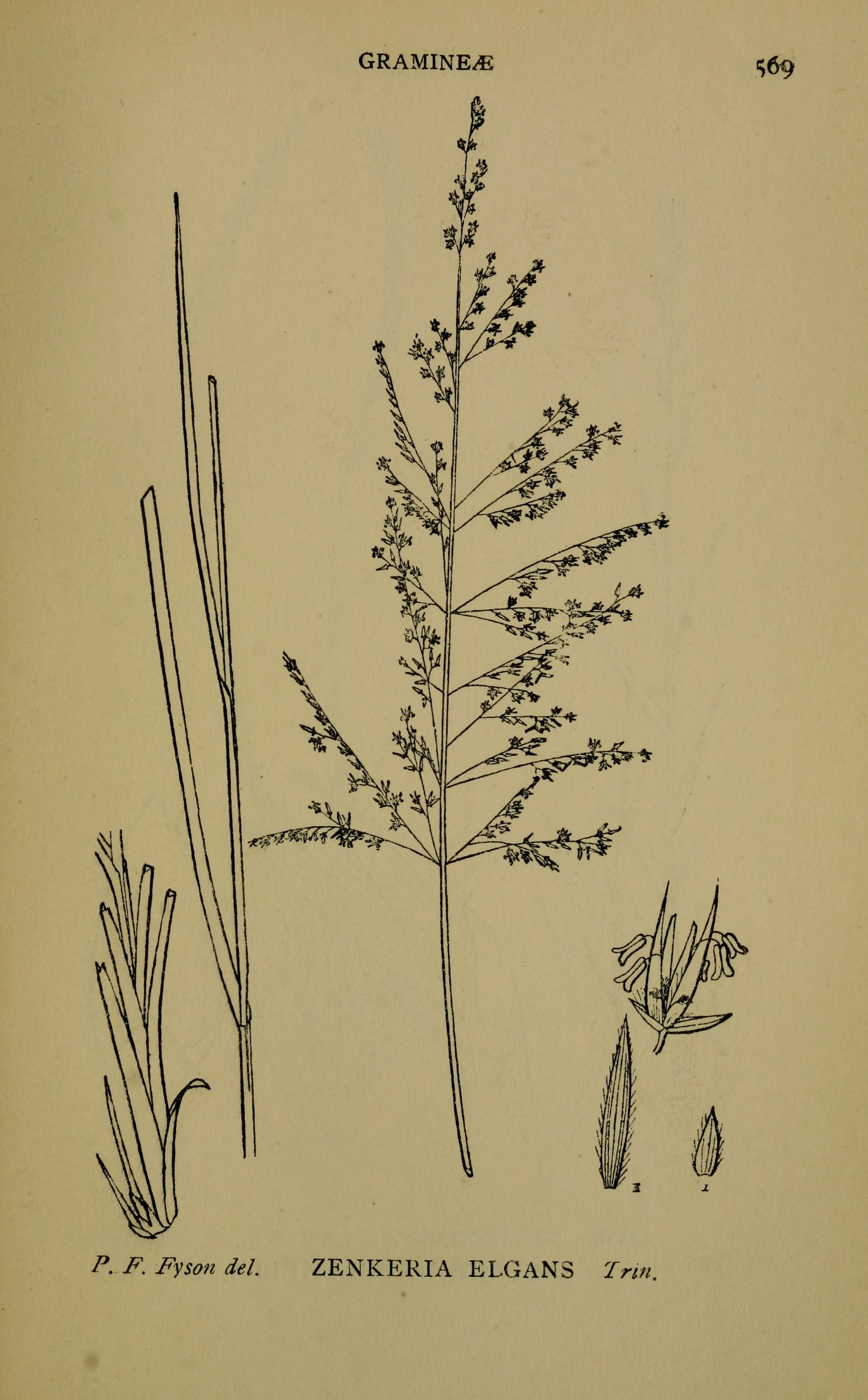 Title: The flora of the Nilgiri and Pulney Hill-tops Year: 1915 (1910s) Authors: Fyson, P. F. (Philip Furley), 1877- Subjects: Plants Plants Publisher: Madras : Printed by the Supt., Govt. Press Text Appearing Before Image: P. F, Fyson del CALAMOGROSTIS PILOSULA Hook, /. GRAMINE.E S69 Text Appearing After Image: P.F. Fyson del. ZENKERIA ELGANS Inn 570 GRAMINE.E